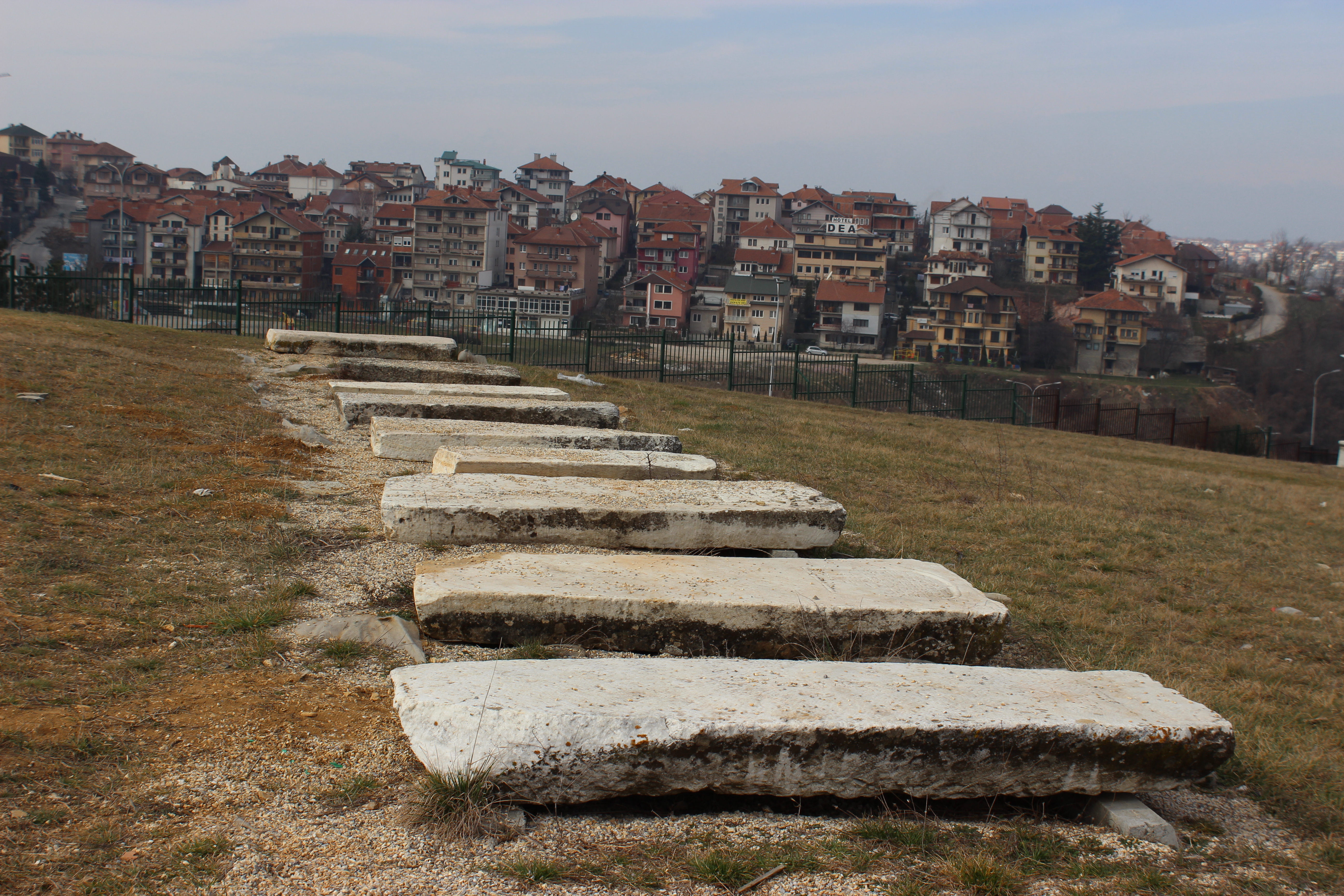 Jewish cemetery in Prishtina, Kosovo